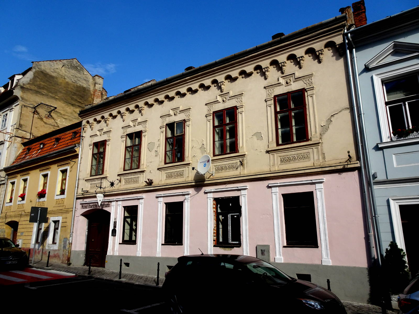 Poarta Schei street in Brasov, house number 22